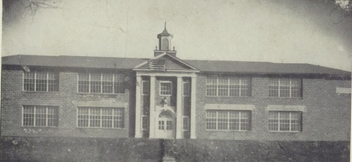 This picture was taken at the finished construction site of the second Poca High School building.